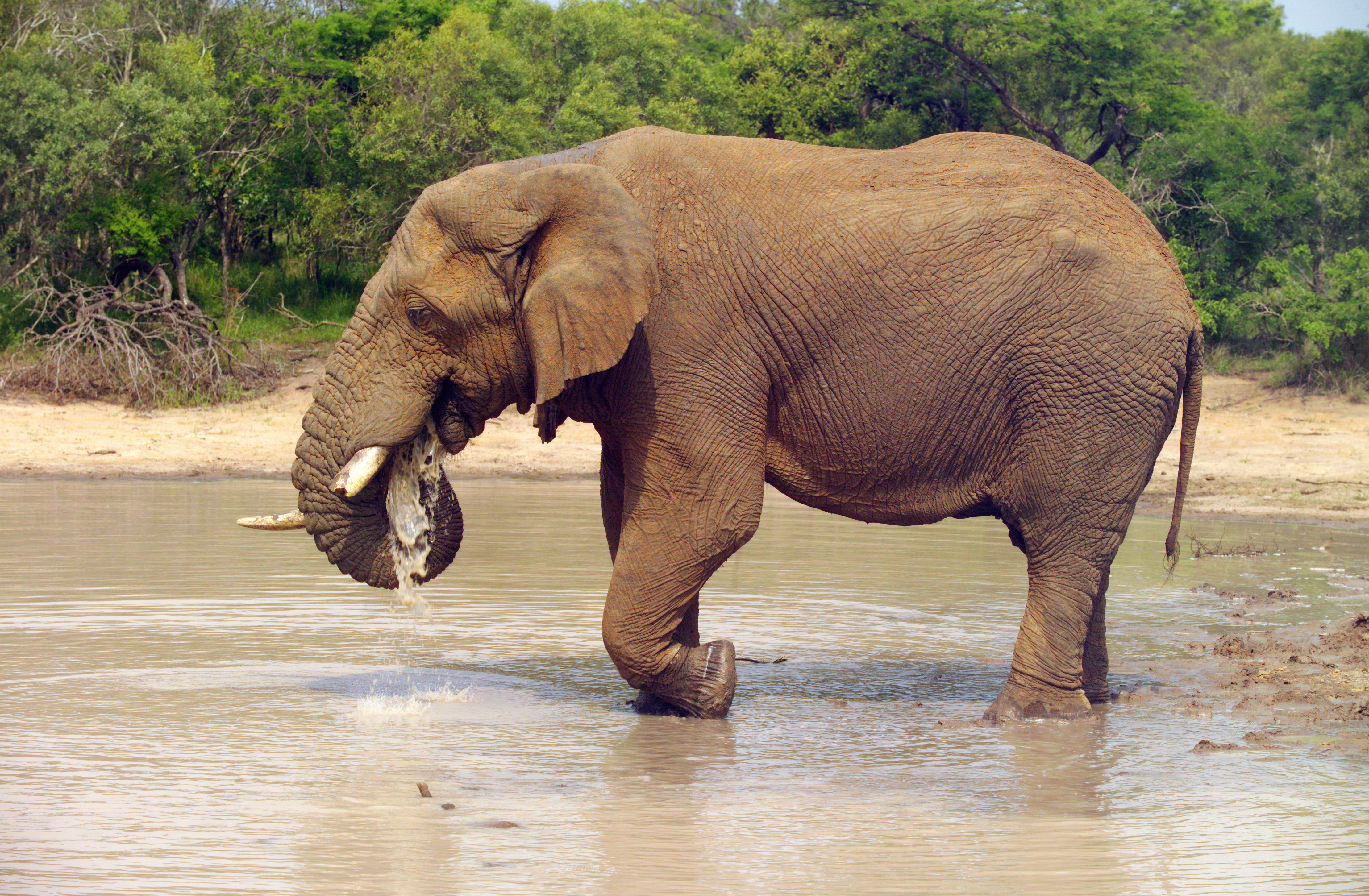 African Bush Elephant (Loxodonta africana), Kruger National Park, South Africa.